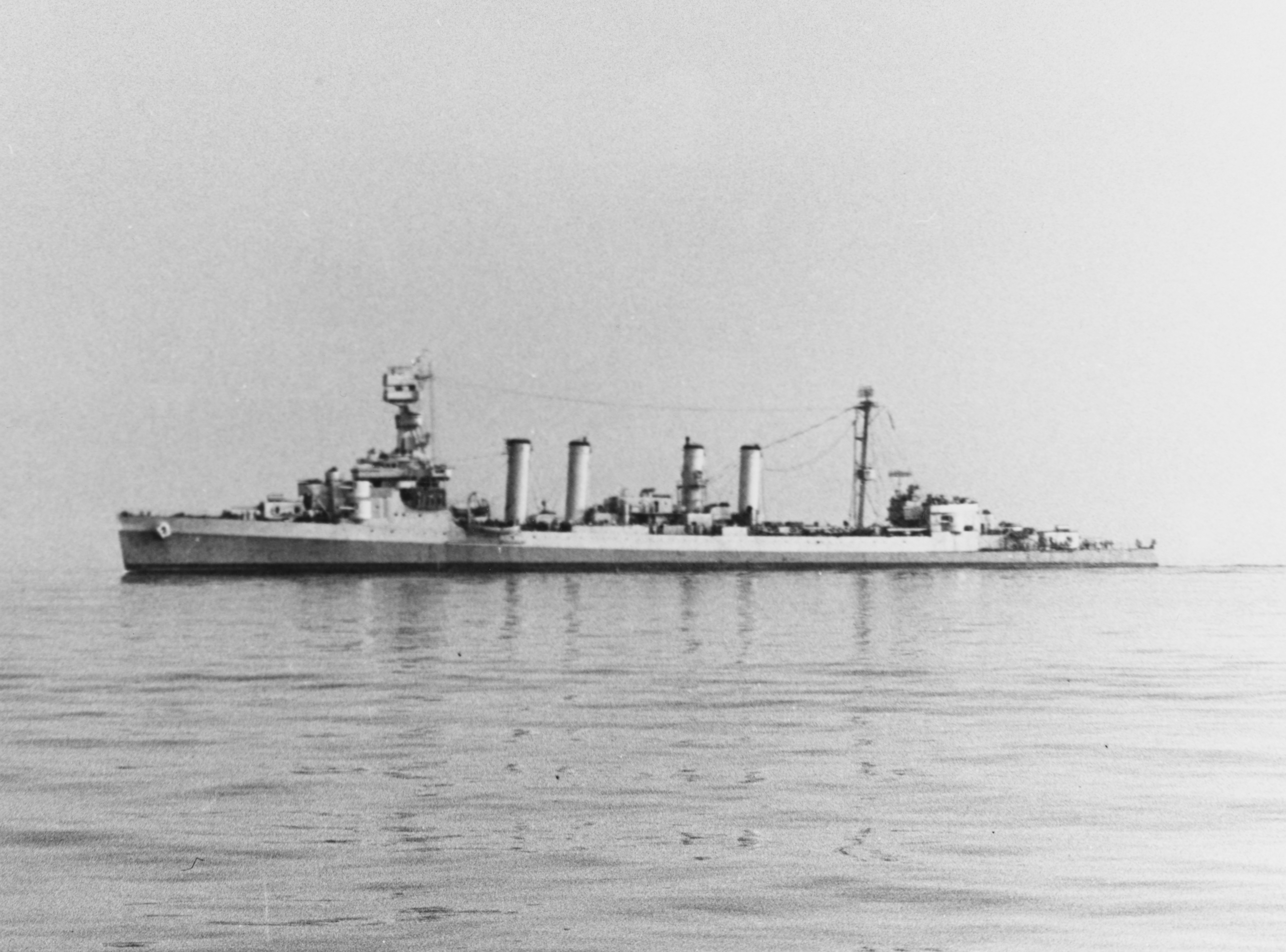 The U.S. Navy light cruiser USS Omaha (CL-4) off the coast of Southern France on 1 September 1944. She is painted in Camouflage Measure 12.